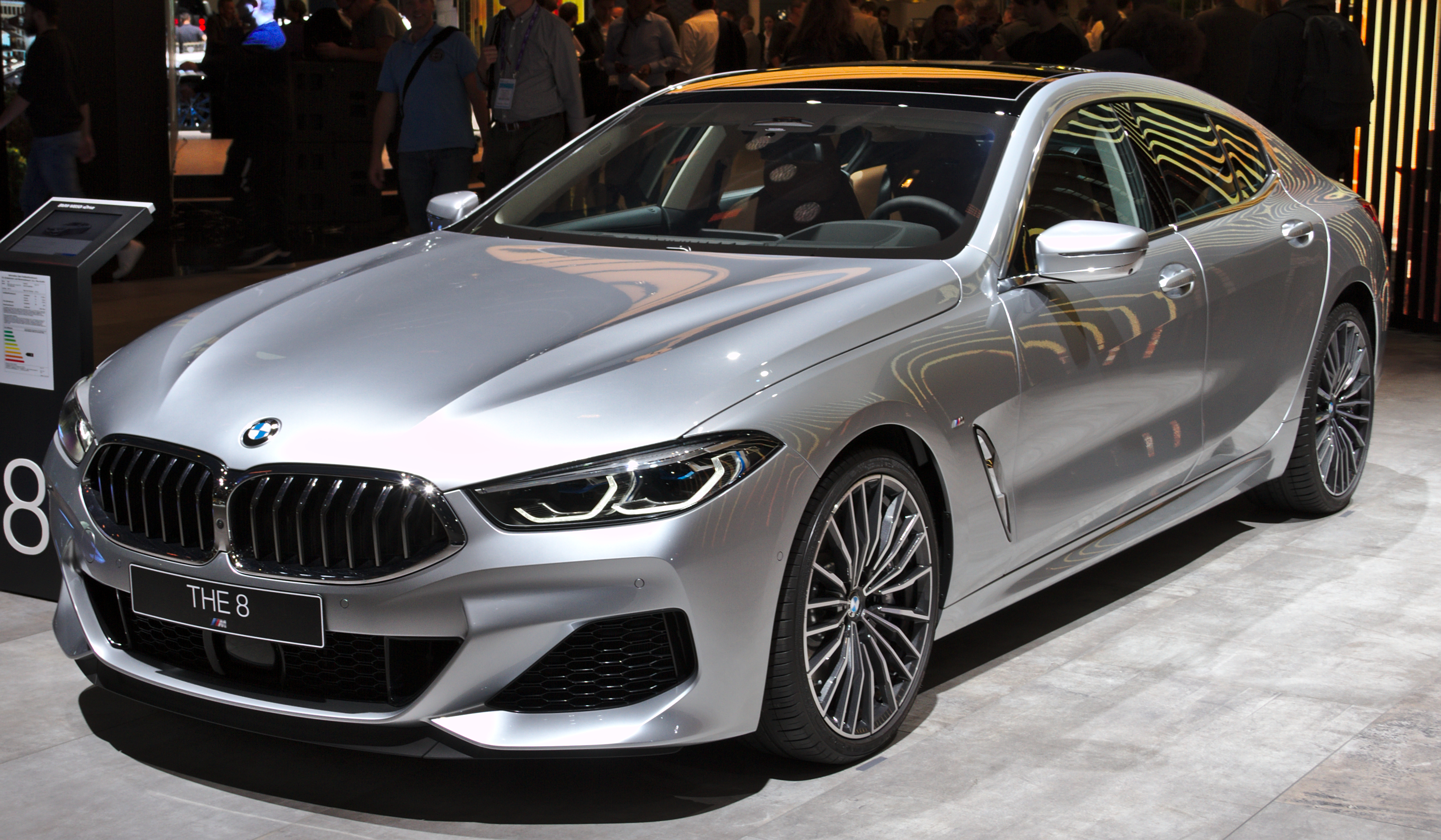 BMW_G16 at IAA 2019